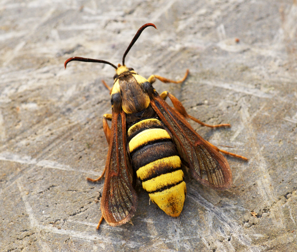 Hornet Moth I asked my Dad yesterday to see if he could get me one of these from some Black Poplars near where he works. Here is a Female that he found freshly emerged. I hope to go back there tomorrow morning and search for more.